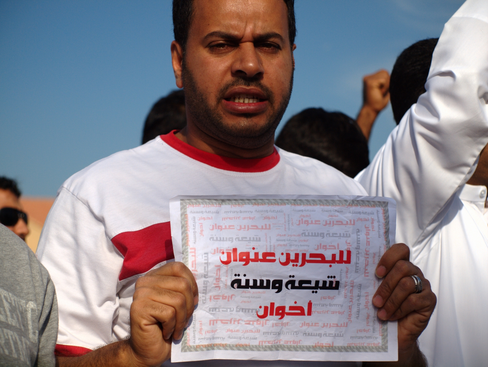 Sunni-Shia unity was a major theme; the majority of the protesters were Shia, but there was a Sunni presence.